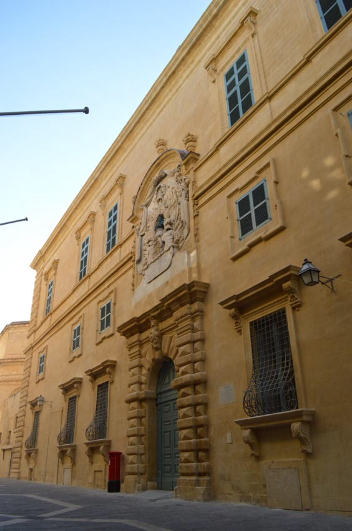 Auberge d'Italie